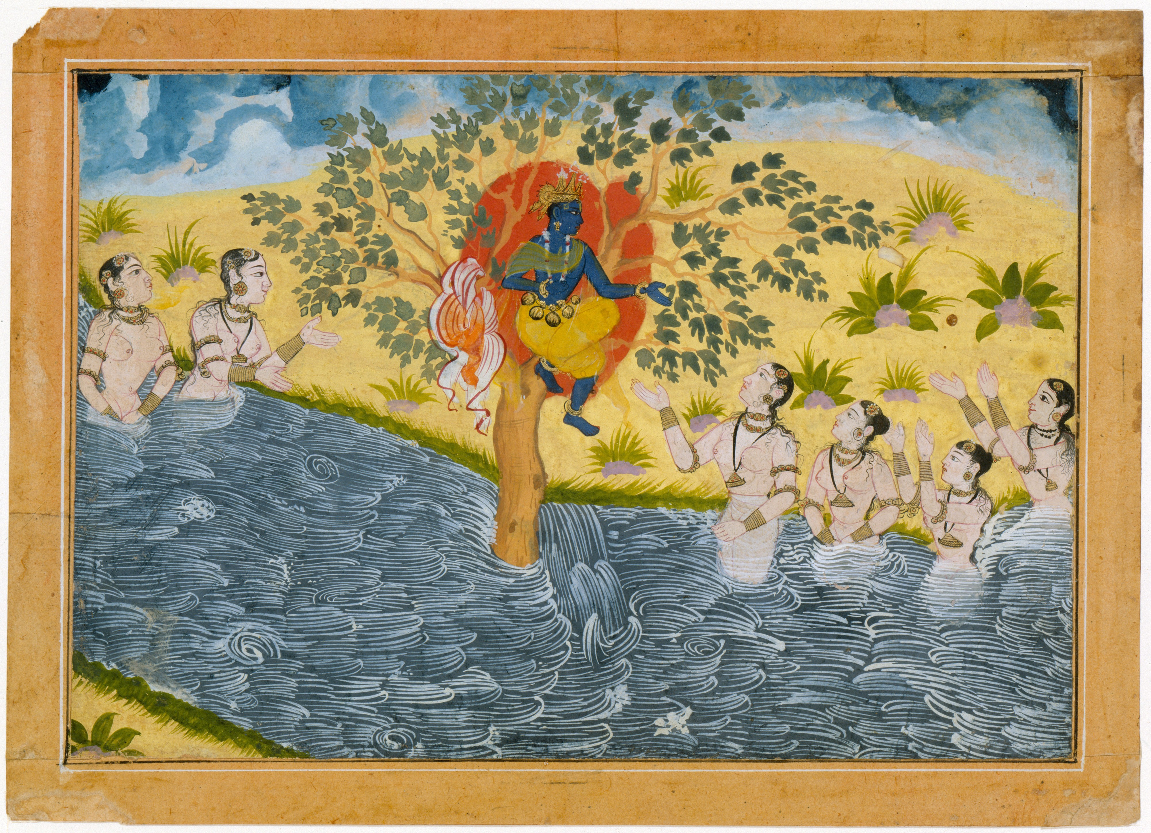 The Gopis Plead with Krishna to Return Their Clothing. Folio from a Bhagavata Purana (Ancient Stories of Lord Vishnu) series. Rajasthan, Bikaner, ca. 1610. Ink, opaque watercolor and gold on paper, 17.1 x 24.8 cm. Metmuseum. MET collection.